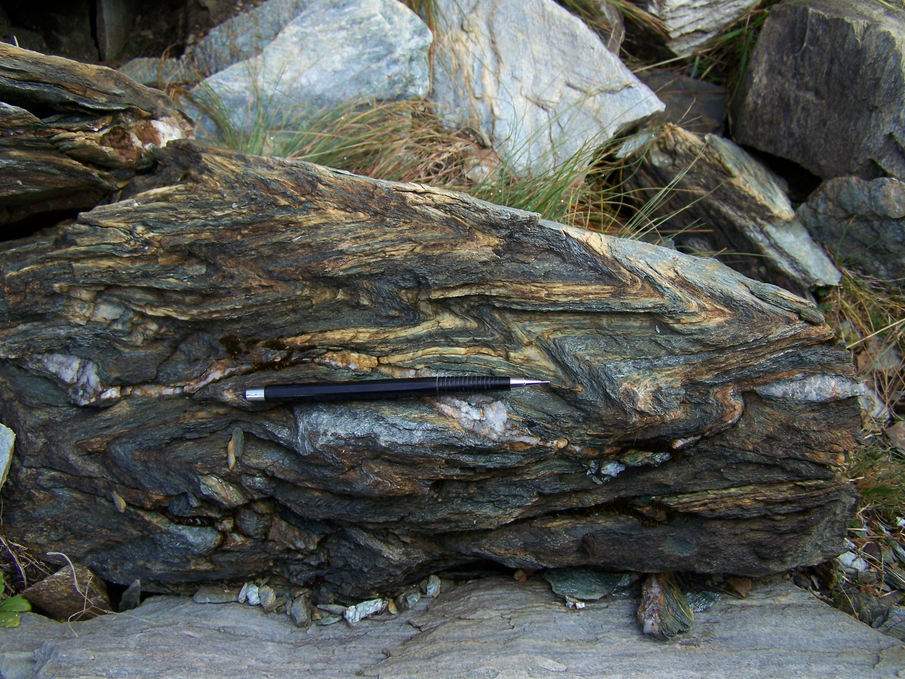 Isoclinal folds in a multilayer (dolomite vs chlorite) schist at the Passo del Lucomagno/Lukmanierpass, Switzerland